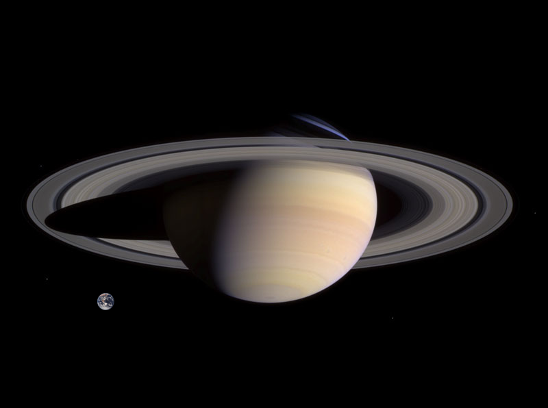 Diameter comparison of Saturn and Earth Approximate scale is 500 km/px.